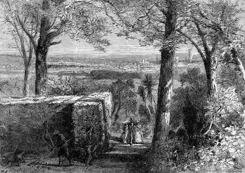 View of Augusta, from Summerville, a wood engraving from a drawing by Harry Fenn, published in Picturesque America, 1872, D. Appleton & Company, New York, New York. Summerville was annexed by Augusta in 1912.